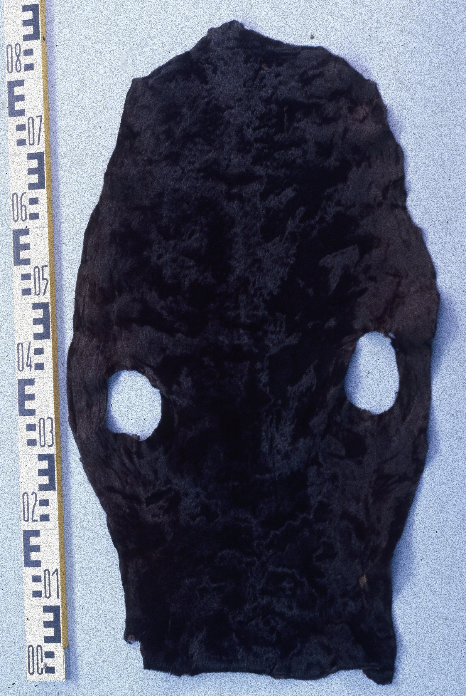 South African sea lyon fur skin (Otaria flavescens (byronia)), infant fur, coloured. Fur skin collection, Bundes-Pelzfachschule, Frankfurt/Main, Germany